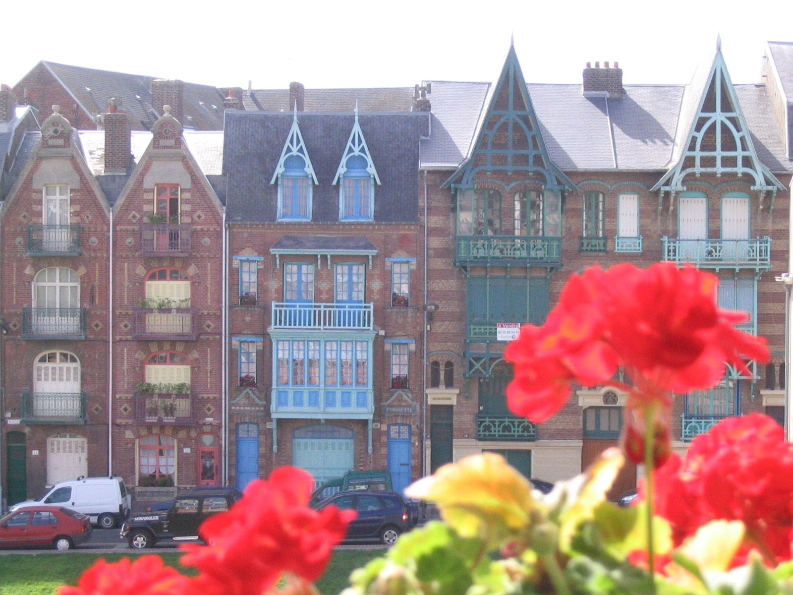 Typical vertical house fronts on the seafront of Mers-les-Bains.